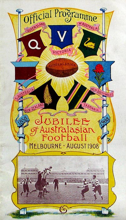 The front cover of the official programme of the 1908 Jubilee Australasian Football Carnival. The carnival commemorating 50 years of Australian rules football, was held in Melbourne. All of its matches played at the Melbourne Cricket Ground. It was the first Australian rules football interstate competition. It was unique; not only were there teams from New South Wales, Queensland, South Australia, Tasmania, Victoria, and Western Australia, there was also a team from New Zealand.